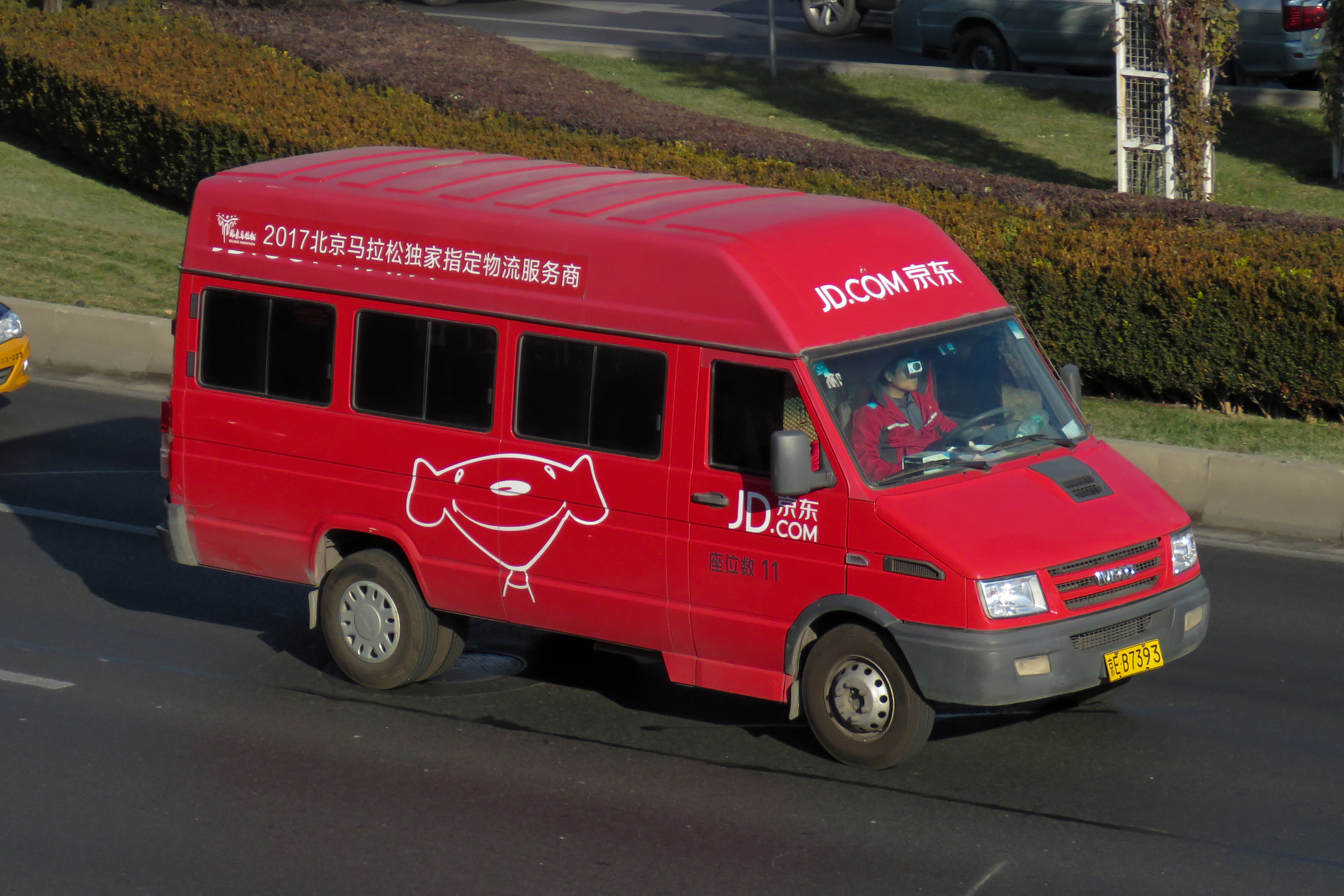 And here comes Liu Qiangdong's red vans. It's running in "East Beijing" (literal meaning of JD/Jingdong) indeed! Same layout as the previous SF Iveco Daily (11-seater).